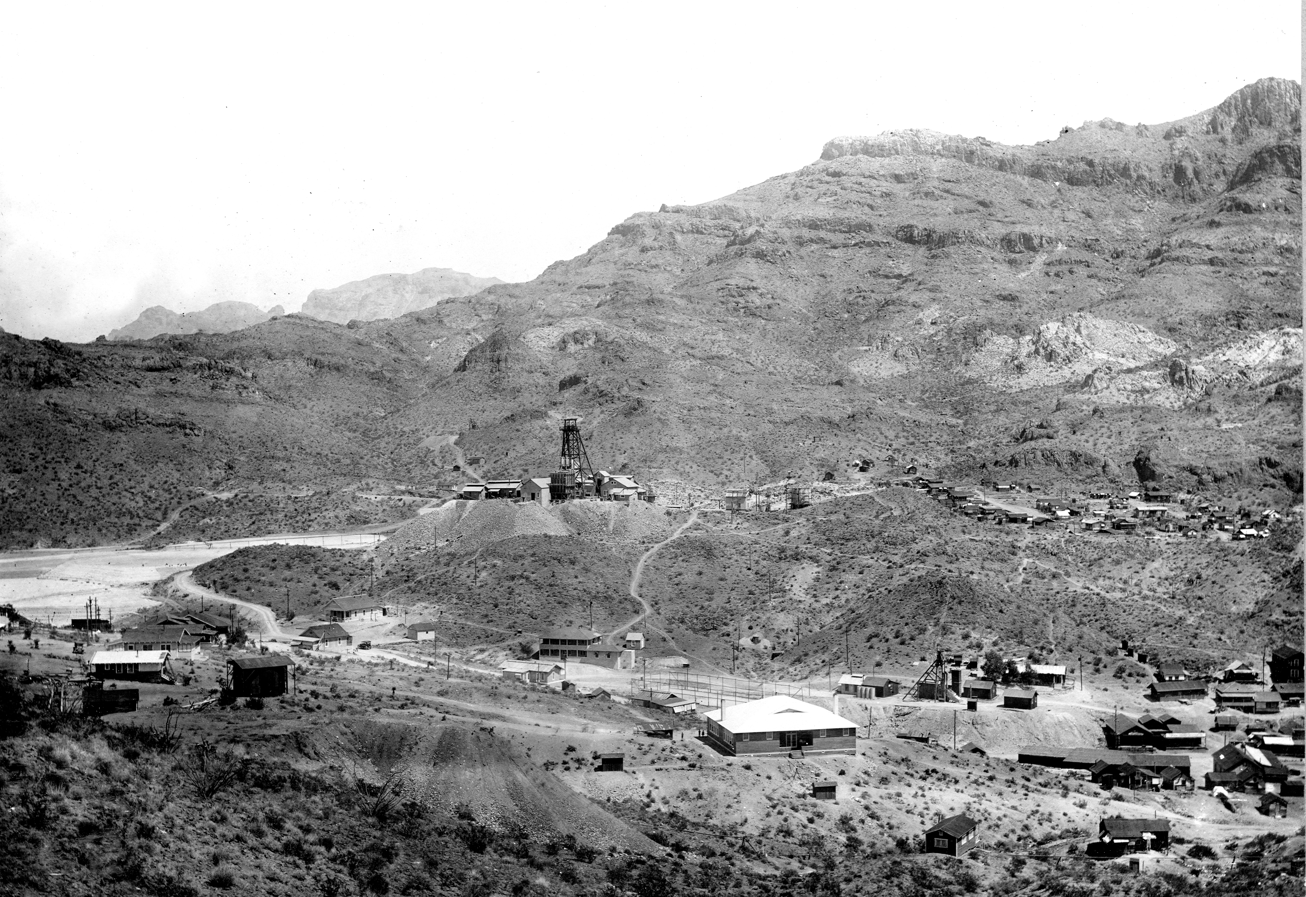 Topography of the Black Mountains (Arizona): Western front, looking northeast from a point near Oatman. The original or No. 1 shaft of the United Eastern mine appears in the right foreground, at the north end of town. The present main or No. 2 shaft, in the left center, is in the hanging wall of the vein. The dump in the left foreground is that of the Olla Oatman shaft, on the southwest branch of the Tom Reed vein. The flows whose edges appear along the mountain side are part of the Gold Road latite. The lighter colored irregular areas are intrusive rhyolite. Mohave County, Arizona. 1921.